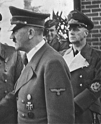 Adolf Hitler and Joachim von Ribbentrop in Montoire-sur-le-Loir (France).